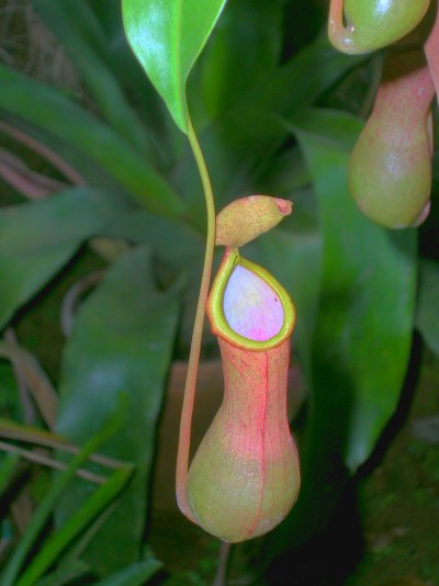 Pitcher plant showing tendril adaptation